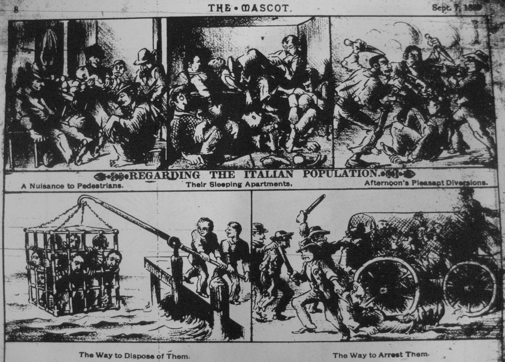 Editorial cartoon in "The Mascot" newspaper, New Orleans, 1888, harshly anti-Italian immigrant.